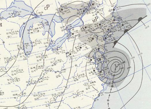 Surface weather analysis of Hurricane Carol on 1954-80-30while offshore the North Carolina–Virginia border.